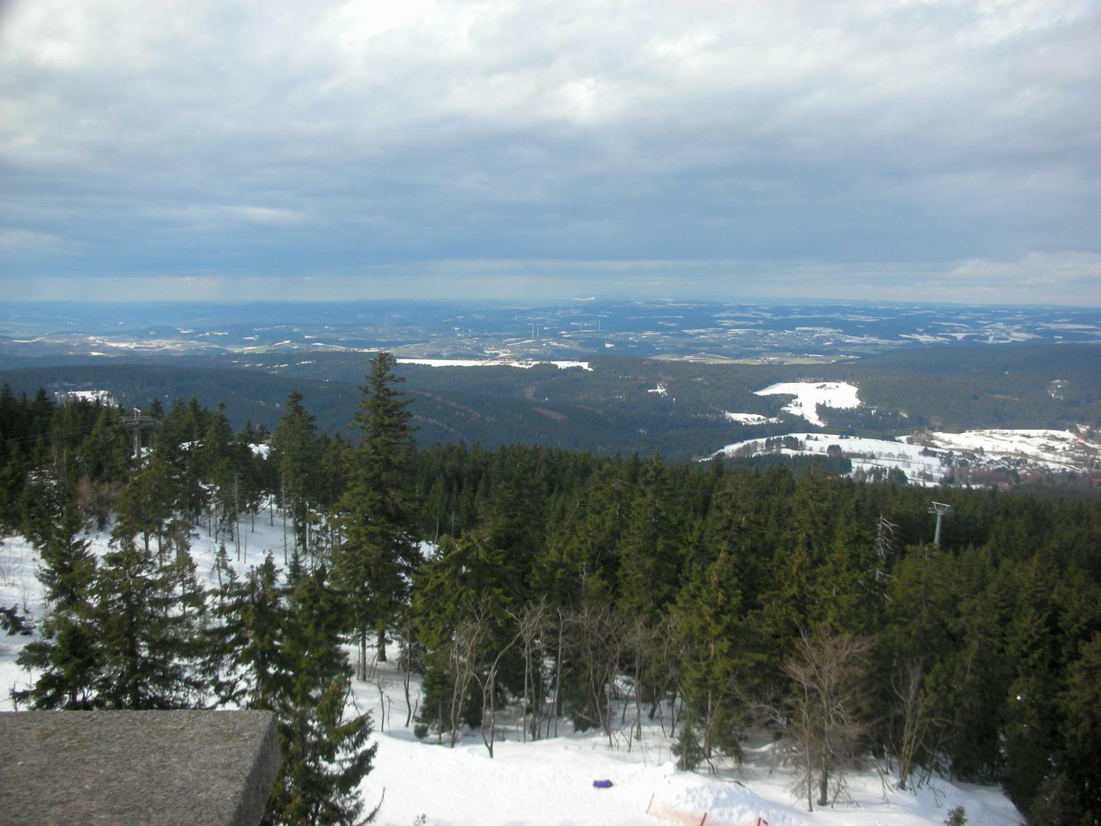 View from the Asenturm observation tower on the Ochsenberg looking northwest. Fichtelgebirge mountains, Bavaria, Germany